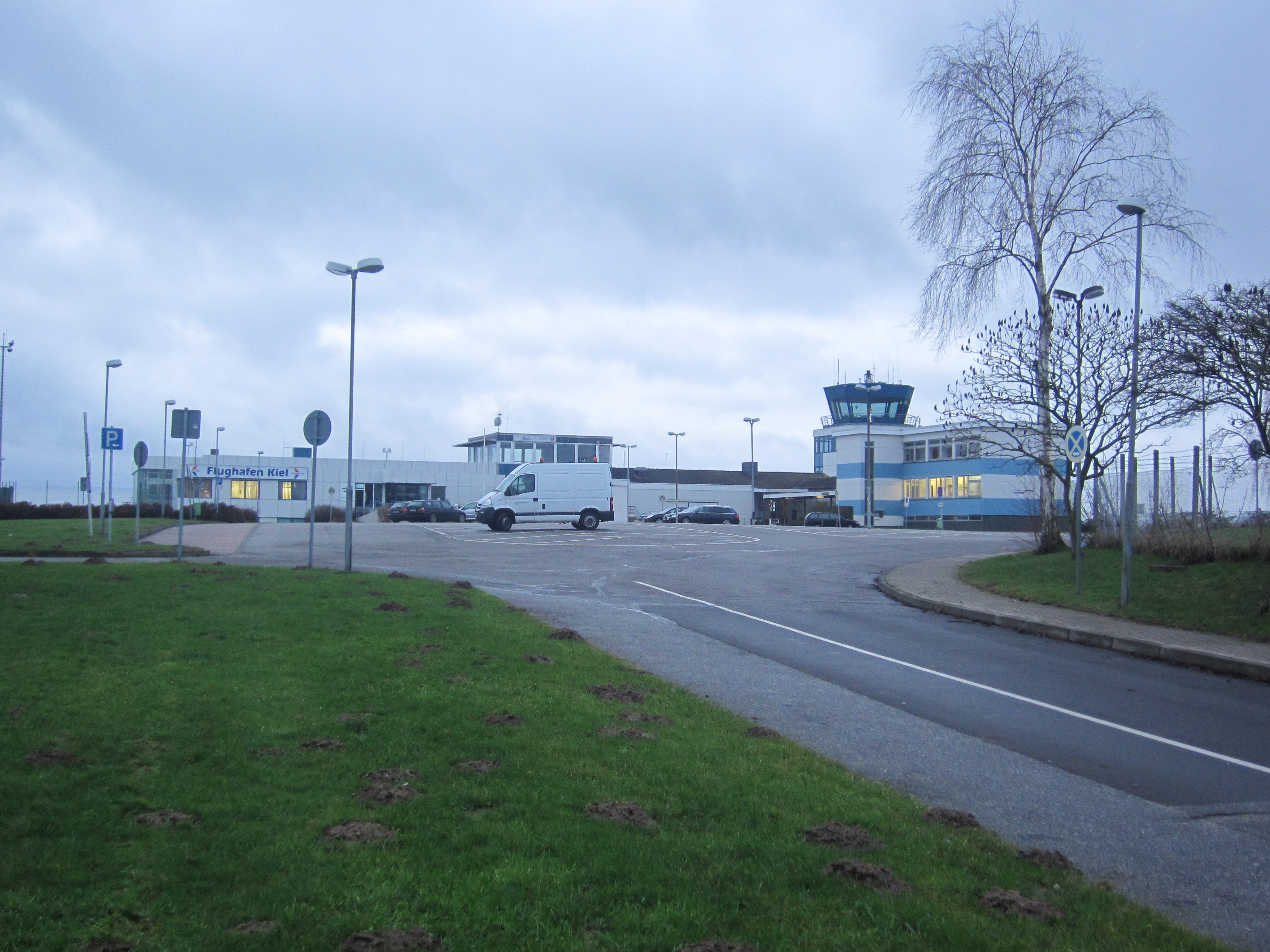 Station building of Kiel Airport